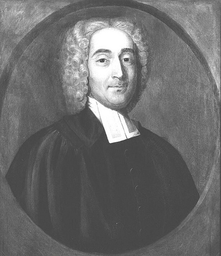 Portrait of Rev. Elisha Williams, fourth Rector of Yale College from 1726 to 1735. (The title 'rector' of Yale College instead of 'president' was used from 1701 until 1745.) Williams graduated with a B.A. from Harvard College in 1711.